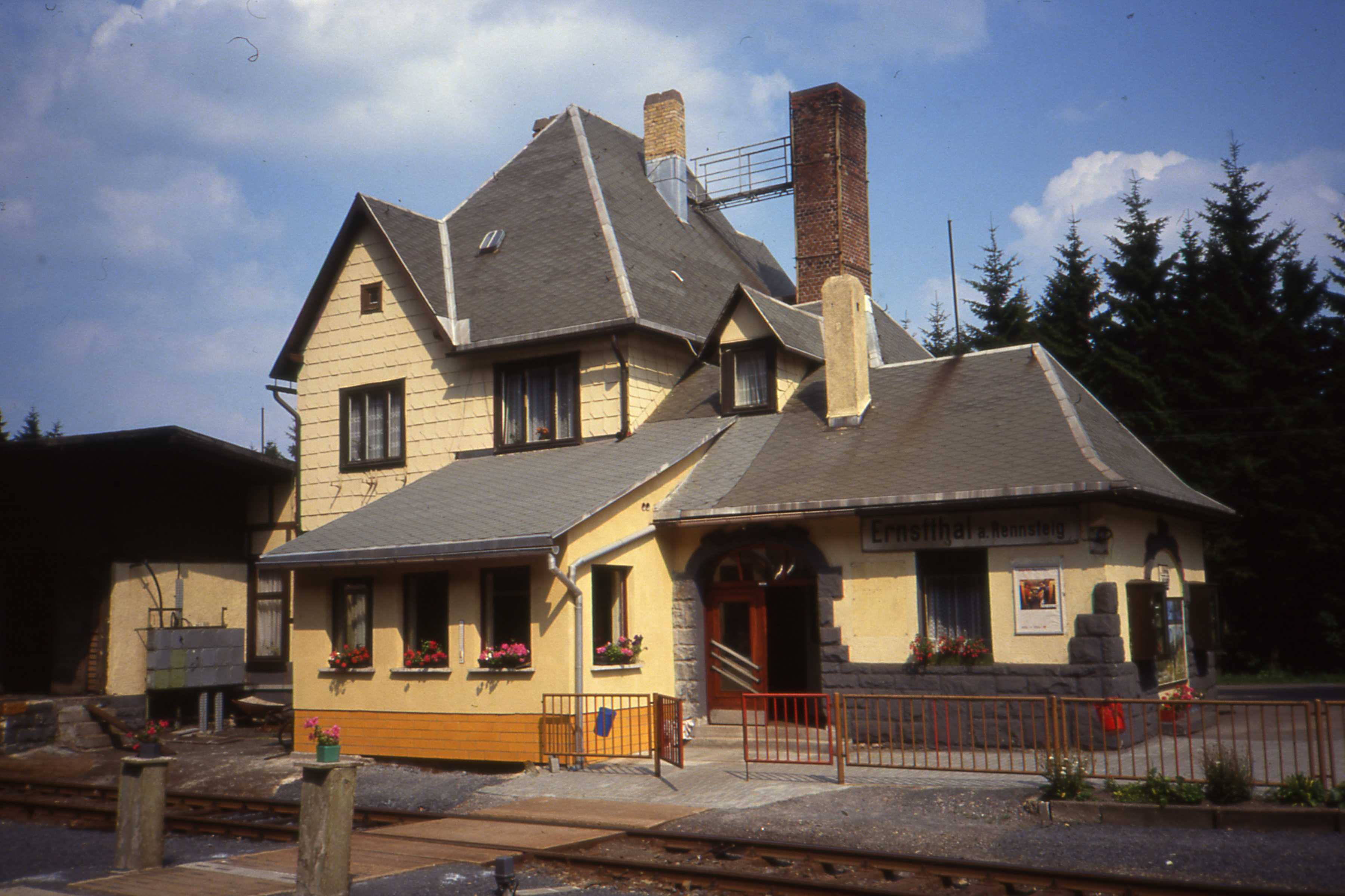 Styled Ernstthal a Rennsteig on the DR station sign. This station was located at 769 m above sea level, 158 m above Lauscha. The station is still in use, but the line to Probstzella is now out of service. Instead railcars of the The now reach Neuhaus am Rennsteig which in late DR times was solely a goods line. Such things would perhaps last five minutes without being smashed up in the new Germany and the station would be covered in graffiti.